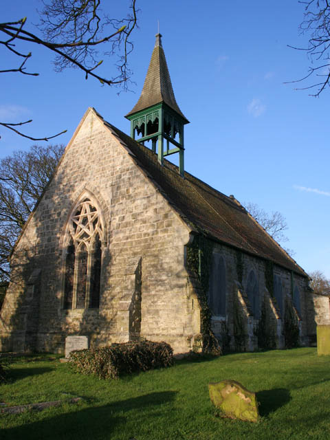 All Saints Church, Eaton A small church with an unusual steeple. There is a very fine west window which must have been stunning lit up with the evening sun. Unfortunately this is yet another locked church so I couldn't access it.